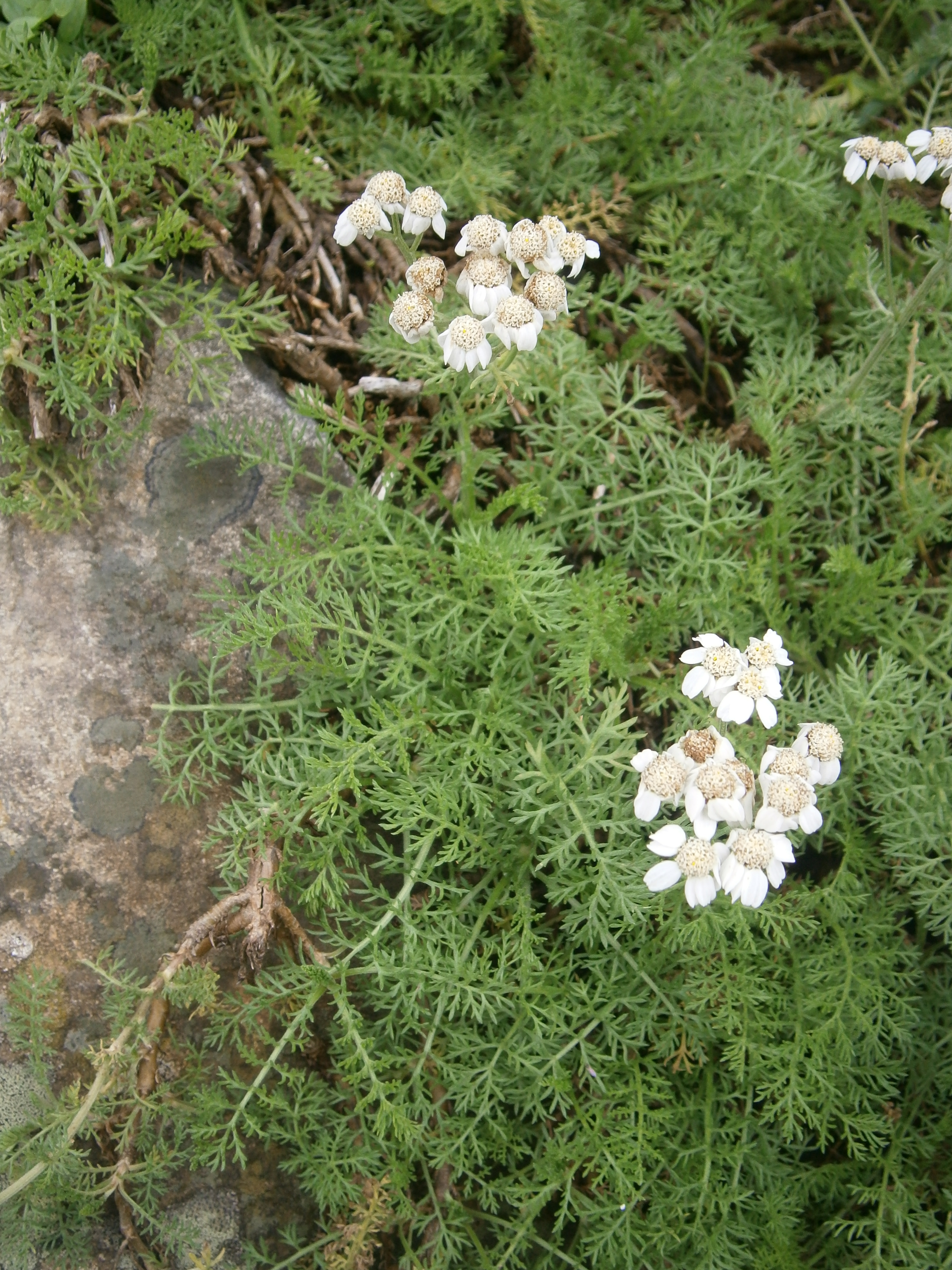 Achillea clusiana in the Jardin Botanique Alpin du Lautaret